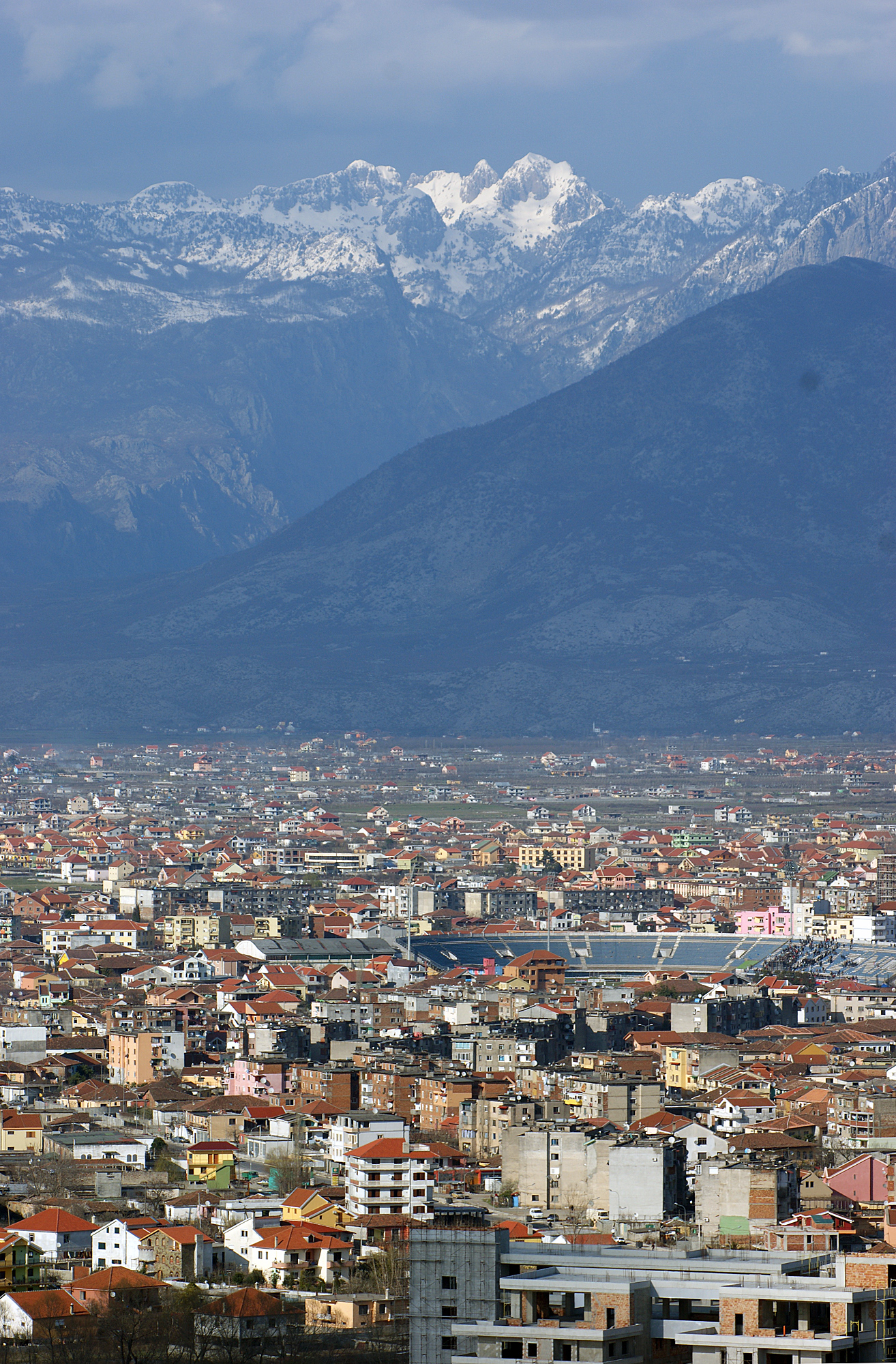 Albanian Alps seen from Shkodra. The city in front, Rjoll valley in the background.